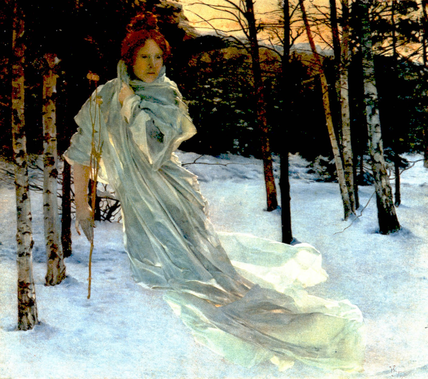 Zima by Vojtěch Hynais